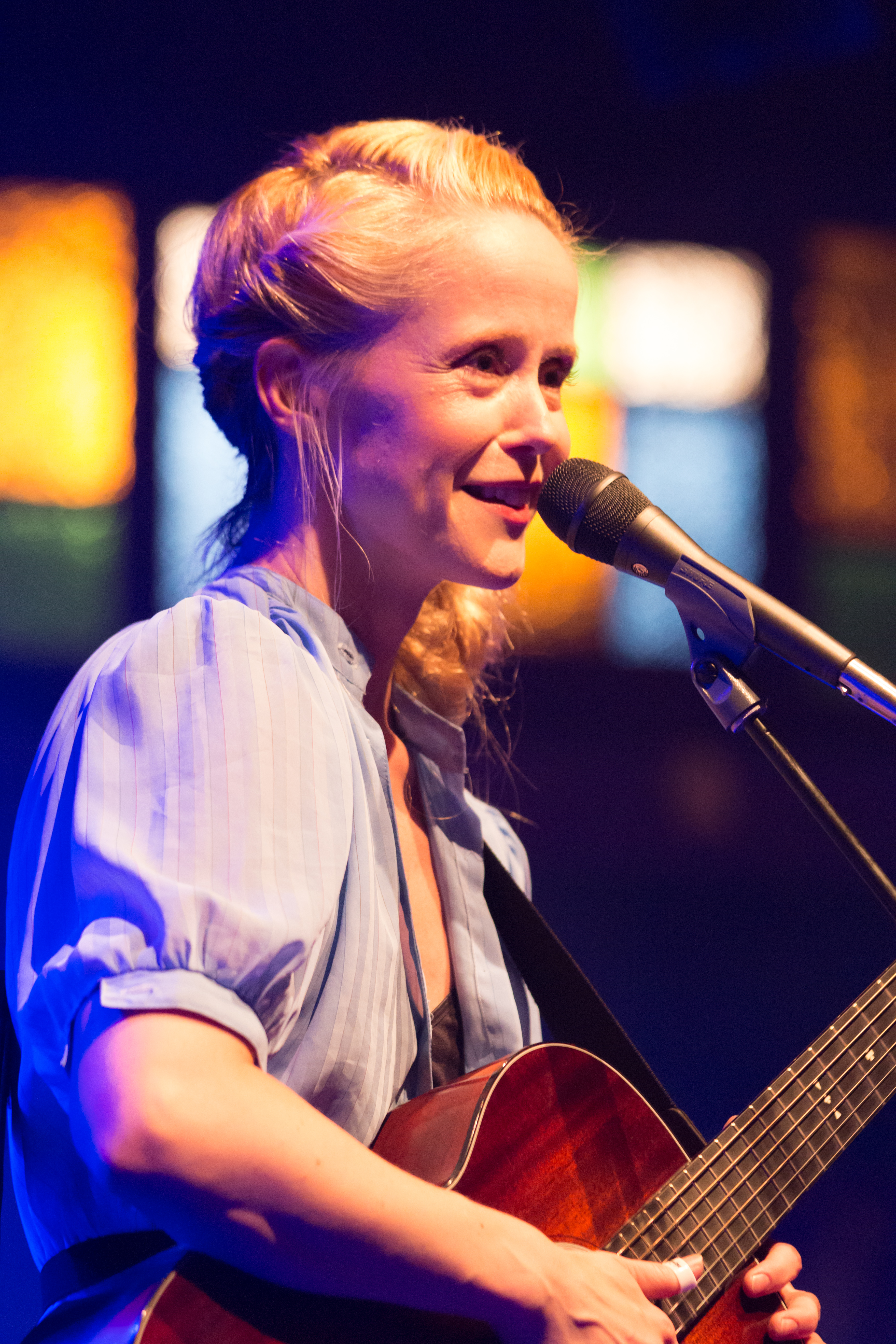 Tina Dico performing at the ZMF Freiburg on July 2nd, 2015.